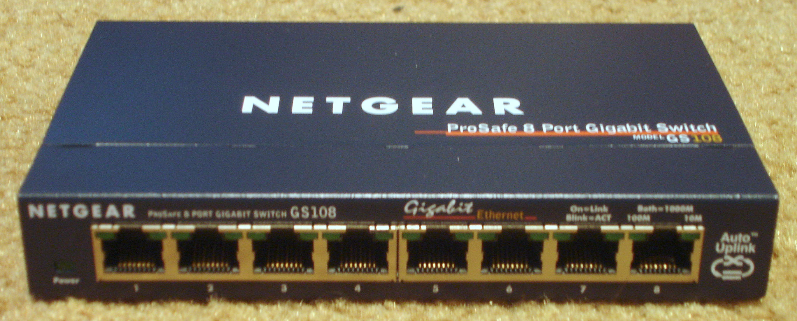 Netgear 8-port gigabit ethernet network switch, front side.